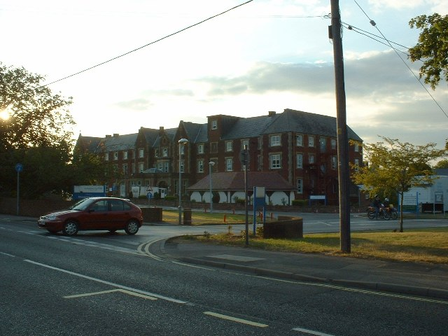 Moorgreen Hospital, West End Moorgreen Hospital, West End. A small local hospital facility.